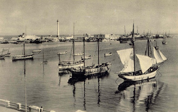 The Port of Tripoli, Libya. (Tripoli port's Lighthouse appear in this picture.)